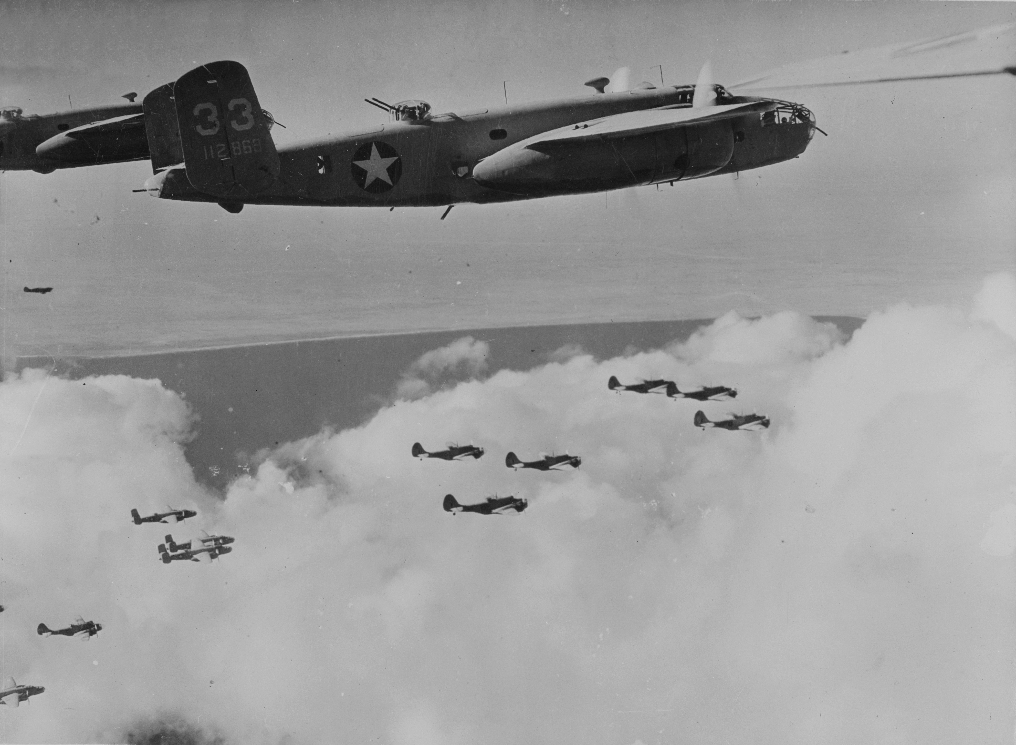 Seven U.S. Army Air Force North American B-25C Mitchell bombers of the 82nd Bomb Squadron, 12th Bomb Group, and seven Martin Baltimore bombers of No. 21 Squadron, South African Air Force, during a sortie against German forces in North Africa in 1943. The B-25C in the foreground, s/n 41-12863, was written off on 19 April 1943. A single escorting Curtiss P-40 Warhawk fighter is visible in the left background. Original caption: "Operations in North Africa by Allied air forces. Mitchell B026 bombers of the United States Army Air Forces and Baltimore bombers of the South African air forces flying together in formation on their way to attack Rommel's position in North Africa."